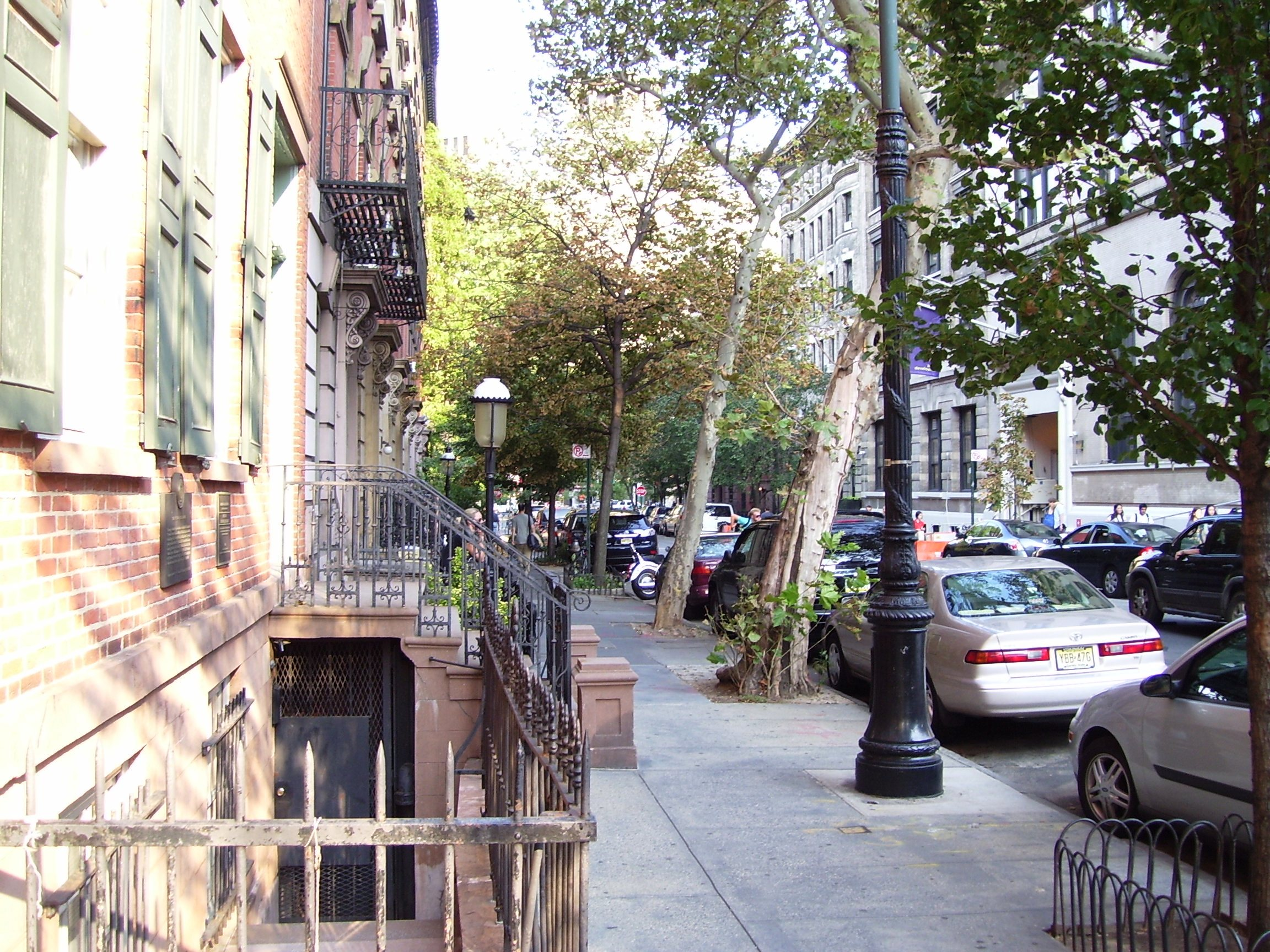 Stuyvesant Street in the East Village, Manhattan, New York City, seen from just below the Stuyvesant-Fish House at 21 Stuyvesant Street.